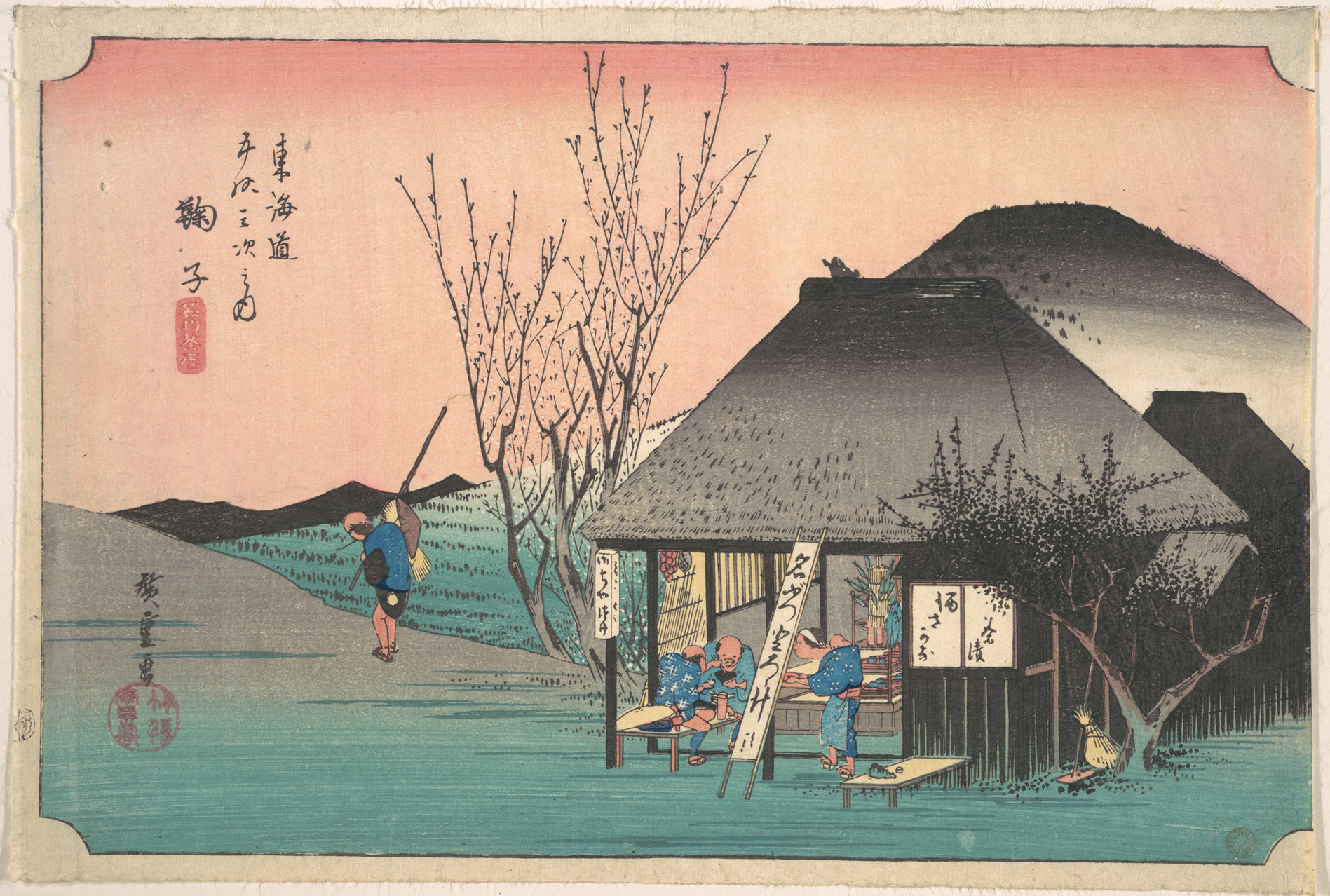 The Famous Teahouse at Mariko (Mariko meibutsu chamise), no. 21 from the series Fifty-three Stations of the Tokaido (Tokaido gosantsugi no uchi) Keyes recommended light restriction: No. ukiyo-e prints by Hiroshige